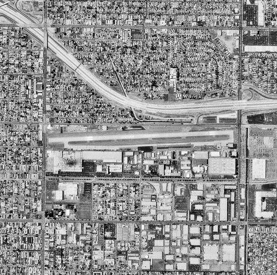 USGS digital orthophoto of Hawthorne Municipal Airport in California